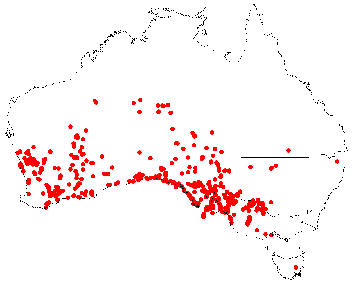 Lawrencia squamata occurrence records from Australasian Virtual Herbarium, downloaded 22 May 2018